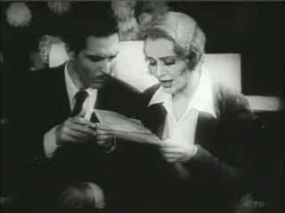 Screenshot of Roland Drew and Carole Lombard from the film The Racketeer (1929).